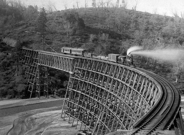 Mixed passenger and freight train from the Nevada County Narrow Gauge Railroad makes its way across the Bear River bridge in 1895. Searls Library